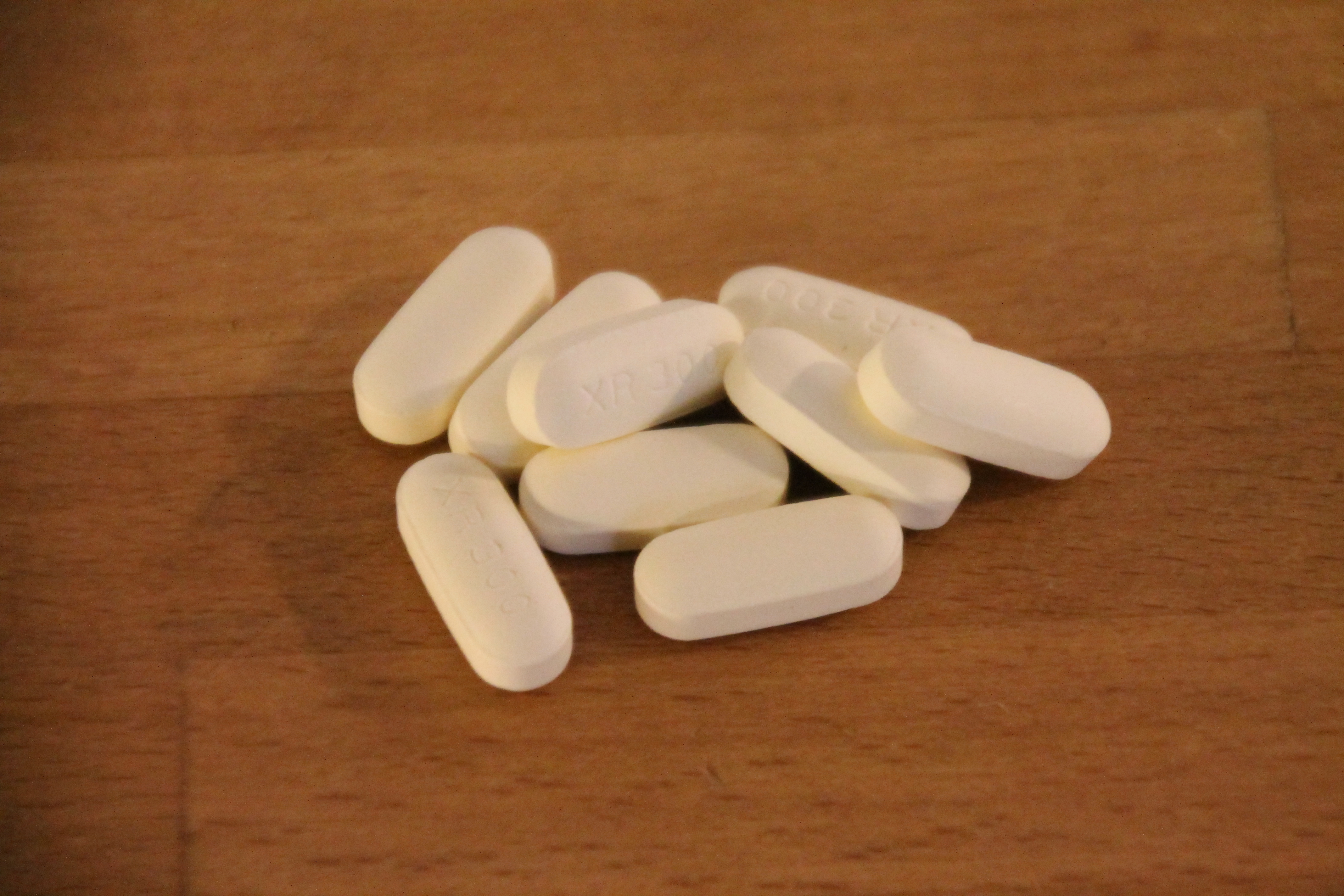 Seroquel Prolong (quetiapine) 300mg -depottablets.